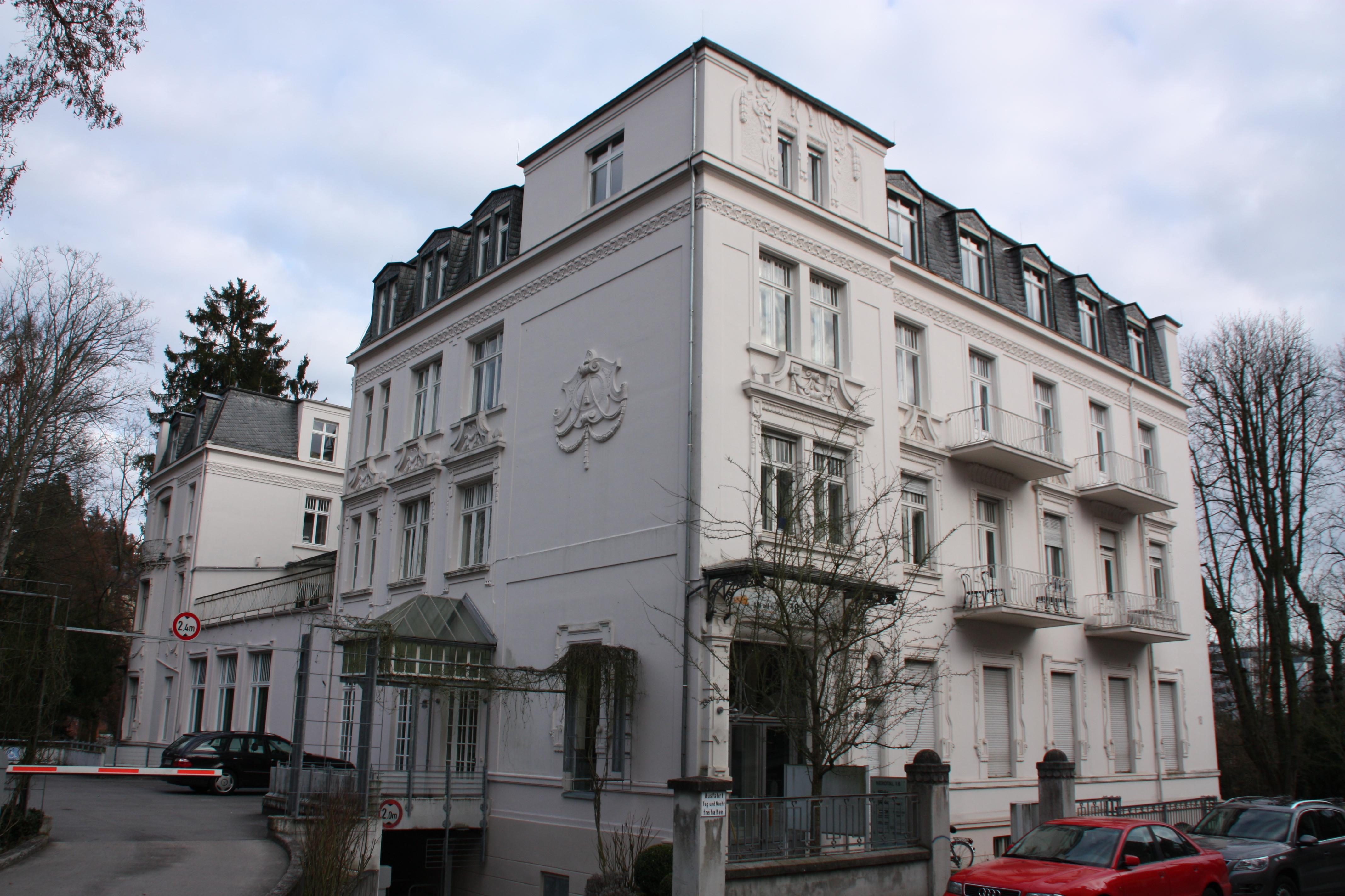 The Theater "Thalhaus", Nerotal in Wiesbaden, Hesse, Germany